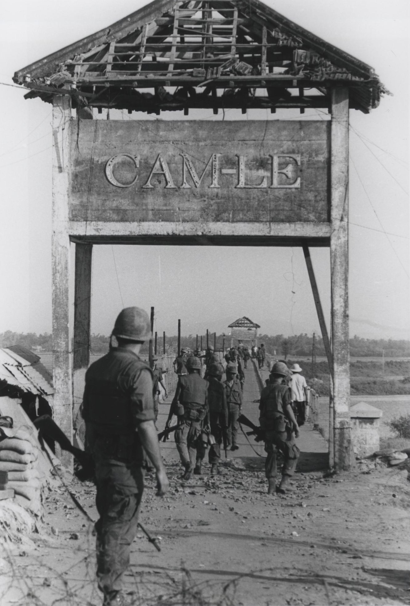 Cam Le Bridge, Da Nang reopened after an attack during the Phase III Offensive